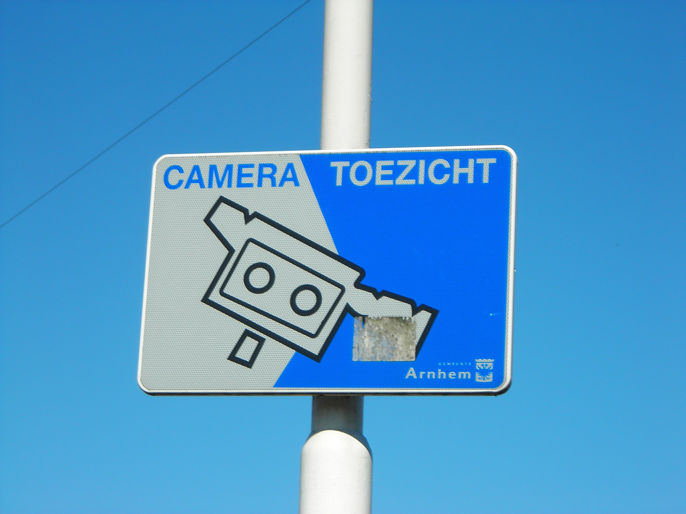 A sign saying "CCTV in operation" in Dutch